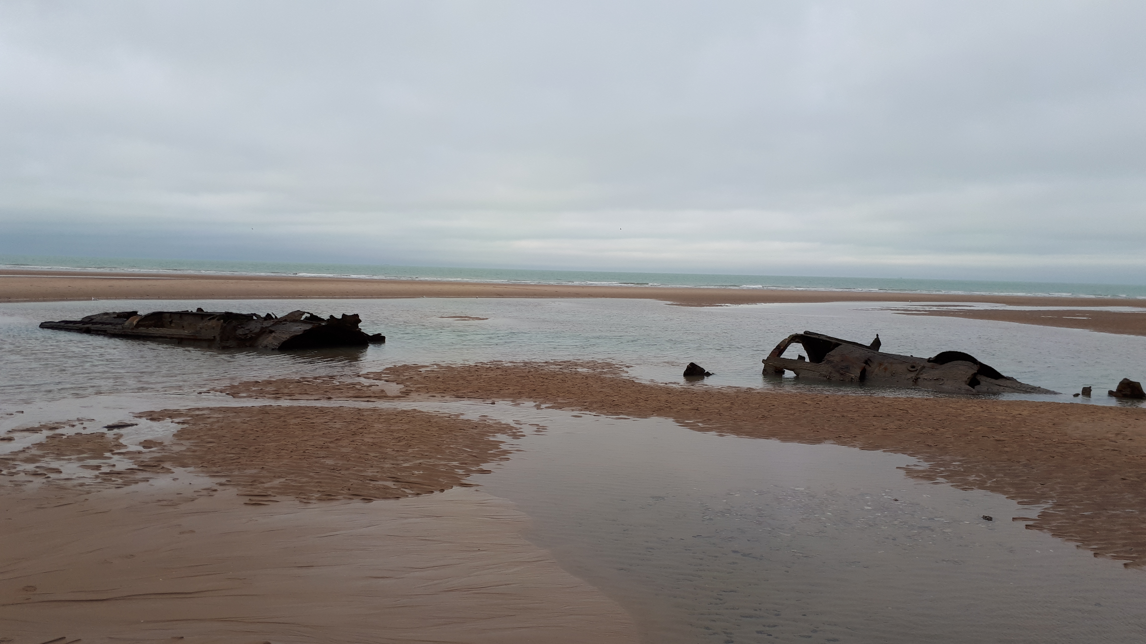 German submarine U-Boot UC-61 Wissant France